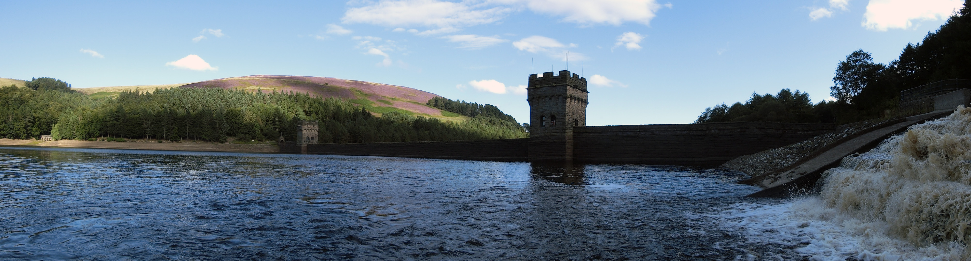 Derwent Dam from the top of the dam, taken August 2017.